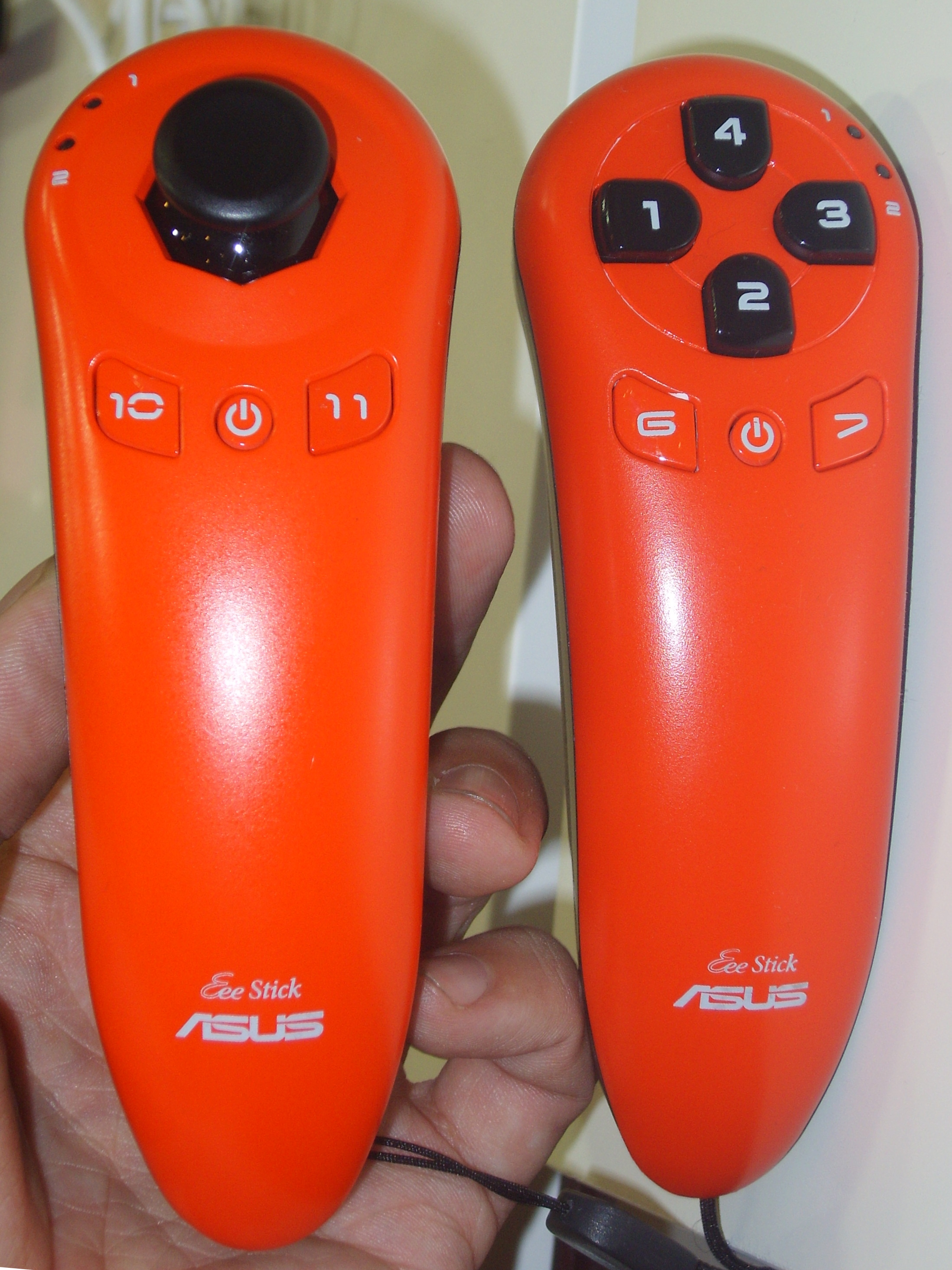 2008 Computex: ASUS Eee Stick (red).